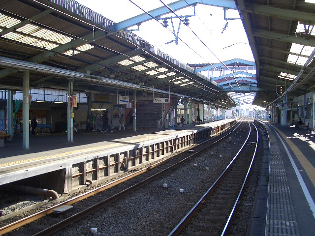 Kōza-Shibuya Station platforms, on the Odakyu Enoshima Line, Yamato, Kanagawa 高座渋谷駅